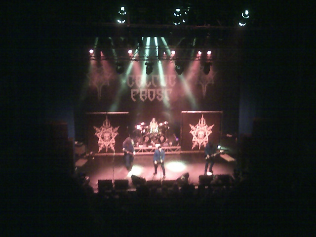 Swiss band Celtic Frost